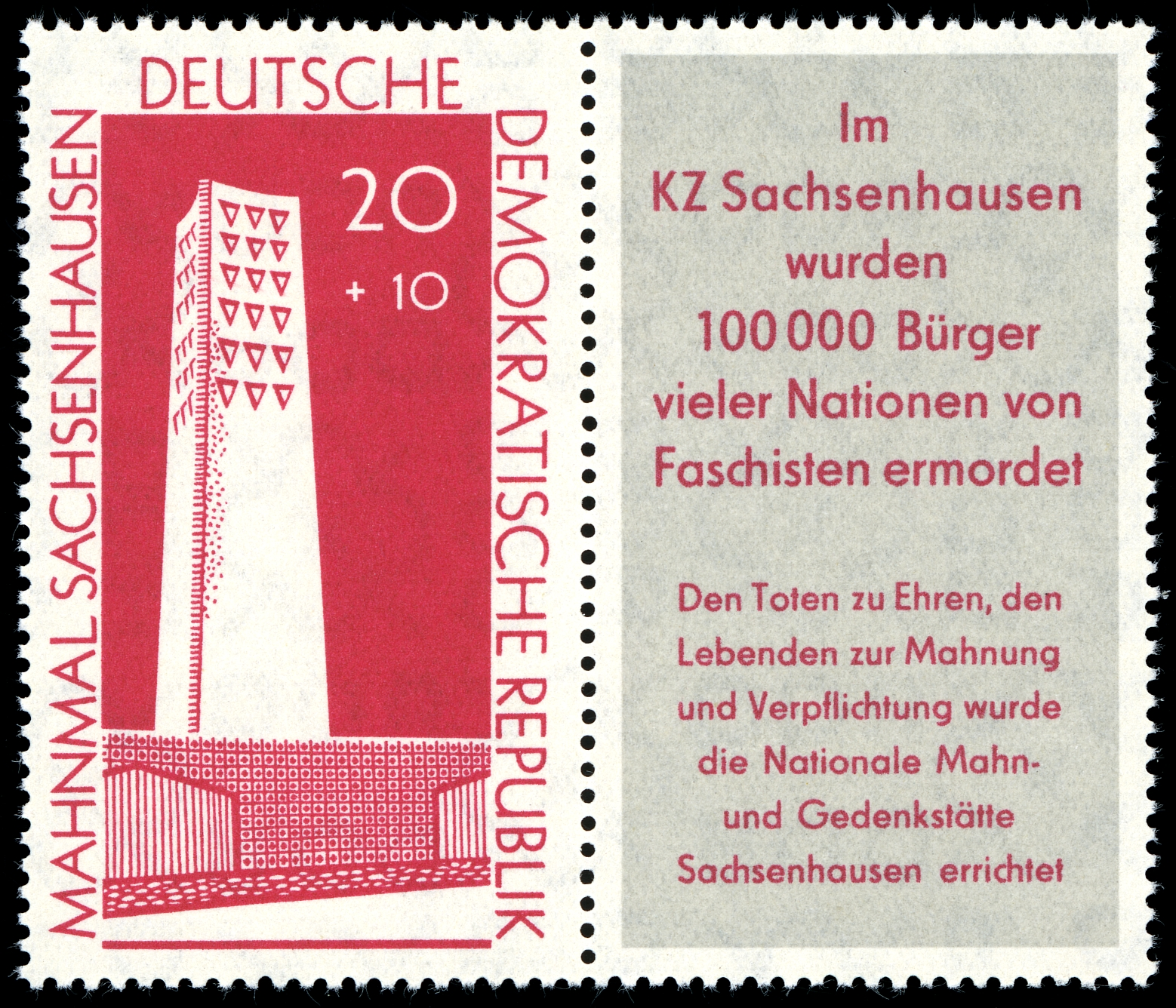 Ausgabepreis: Pfennig First Day of Issue / Erstausgabetag: Auflage: Entwurf: Druckverfahren: Michel-Katalog-Nr: Ländercode-MiNr: Licensing This file is most likely NOT in the public domain. It has been marked for review, and will be deleted in due course if the review does not find it to be in the public domain. This file was previously considered to be in the public domain as a German stamp; it is possible that it is in the public domain for other reasons, in which case a new rationale will be applied as part of the review process. See below for the previous rationale. Previous public domain rationale, no longer applicable This stamp is in the public domain in Germany because it was released by the postal administration of the German Democratic Republic or the Soviet occupation zone (Deutschen Post der DDR) whose legal successor is the Federal Republic of Germany. Thus it is an official work according to German copyright law (§ 5 Abs. 1 UrhG).